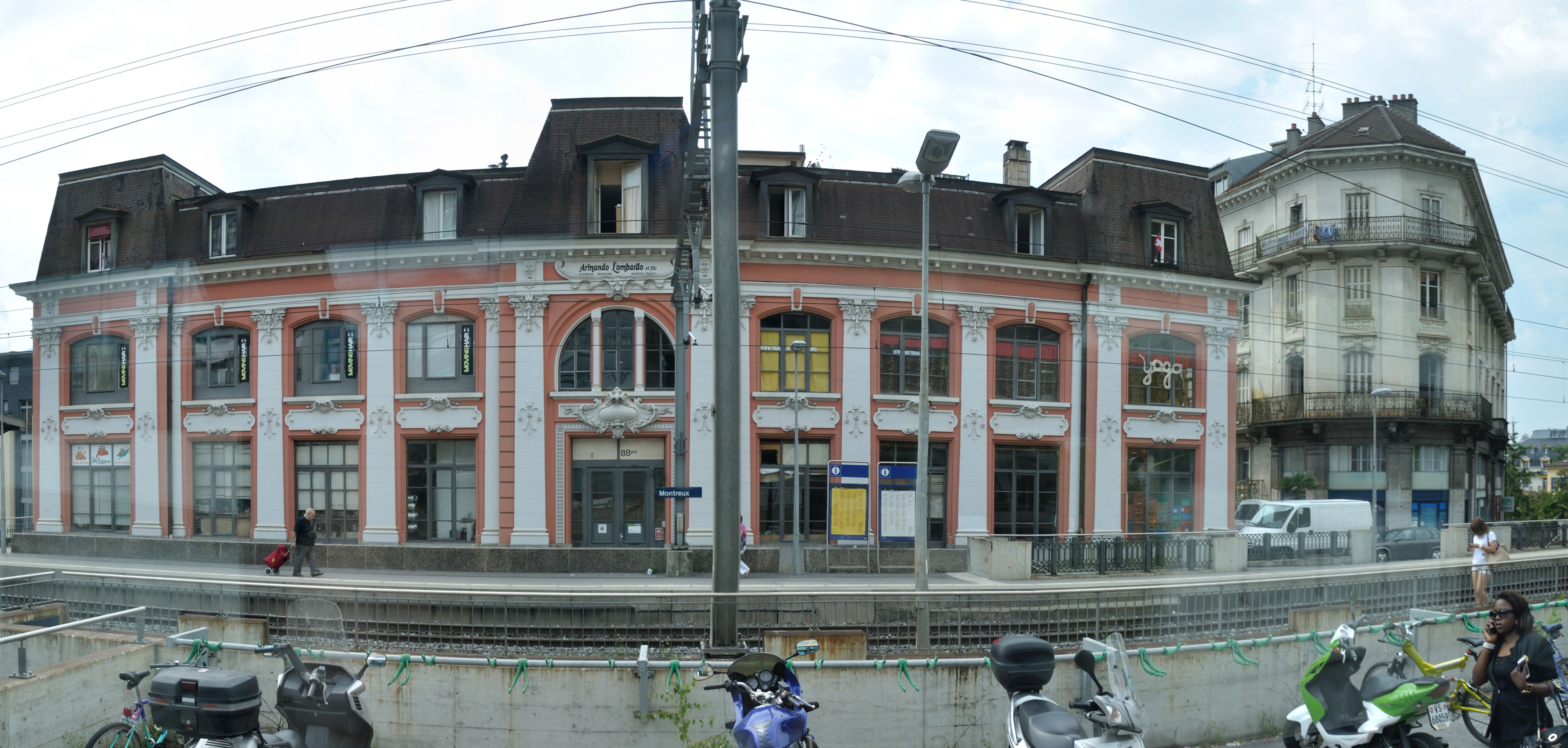 Switzerland, Vaud, view at abuilding near Montreux train station